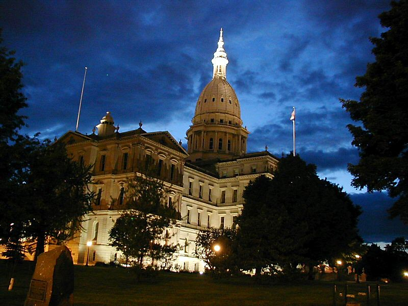 Capitol